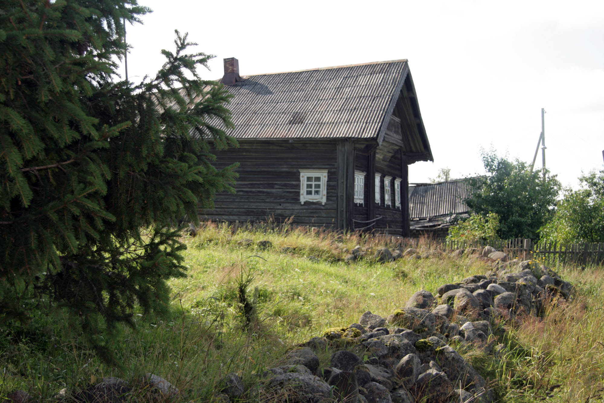 Kinnermäki (Kinerma) village in Karelia, Russia